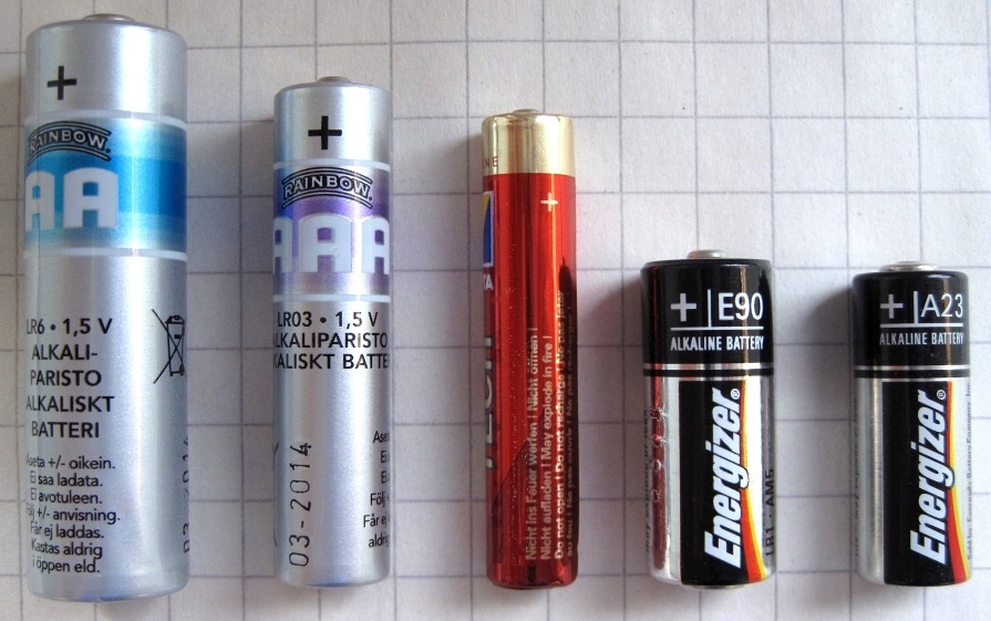 A side by side comparison of AA, AAA, AAAA, N and A23 battery types.